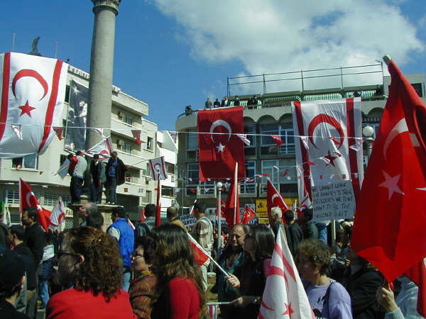 A pro-TRNC demonstration in Sarayönü, North Nicosia